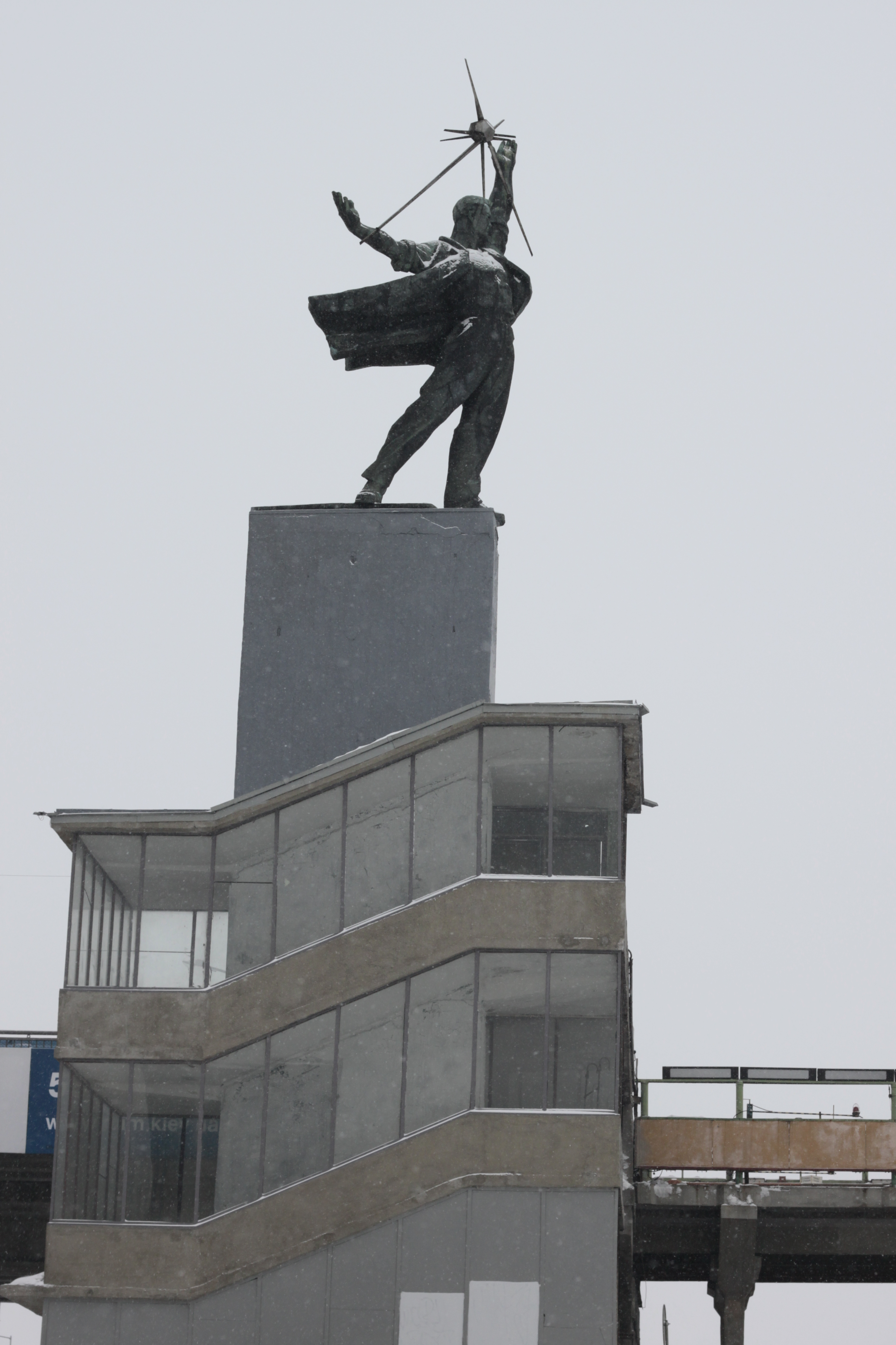 Kyiv, Monument On Metro Bridge, / Київ, Пам'ятник на Мосту Метро